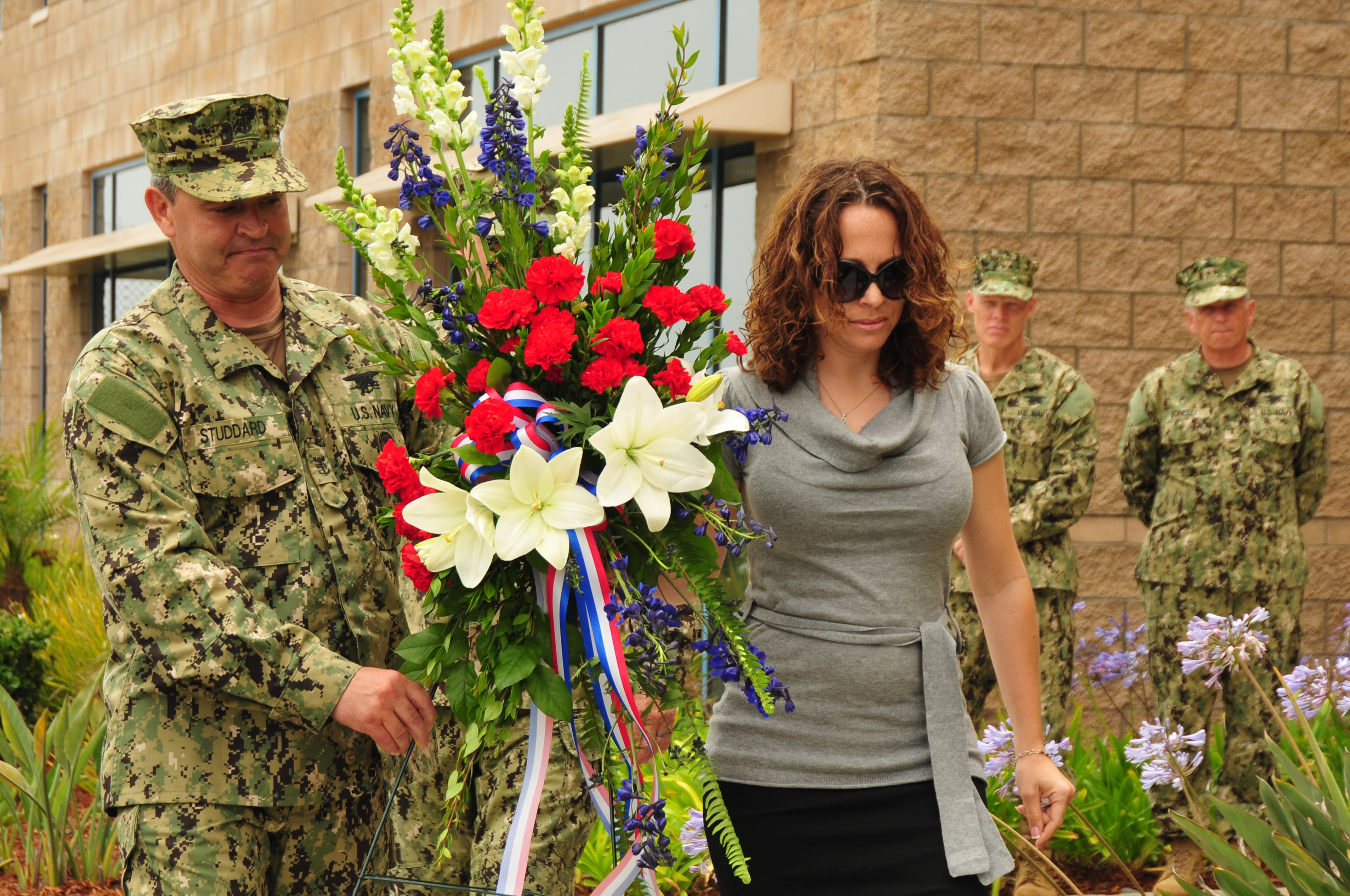 CORONADO, California: Force Master Chief Steven Studdard, left, and the wife of fallen Hospital Corpsman 1st Class (SEAL) Jeffrey S. Taylor, carry a wreath during the sixth anniversary ceremony held at Naval Special Warfare Command to honor the men of Operation Red Wings. Jeffrey S. Taylor was killed during an operation to attempt to rescue a four-man SEAL team tasked with finding a key Taliban leader in the mountainous terrain near Asadabad, Afghanistan. The operation claimed the lives of 11 Navy SEALs and eight Army Soldiers assigned to the Night Stalkers of the 160th Special Operations Aviation Regiment.